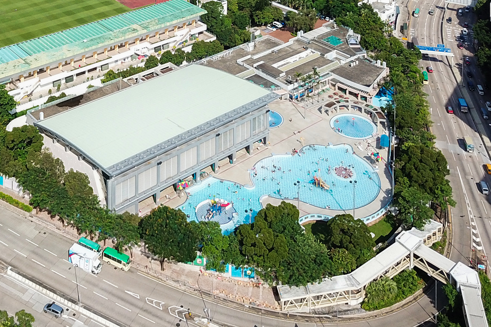 Hammer Hill Road Swimming Pool